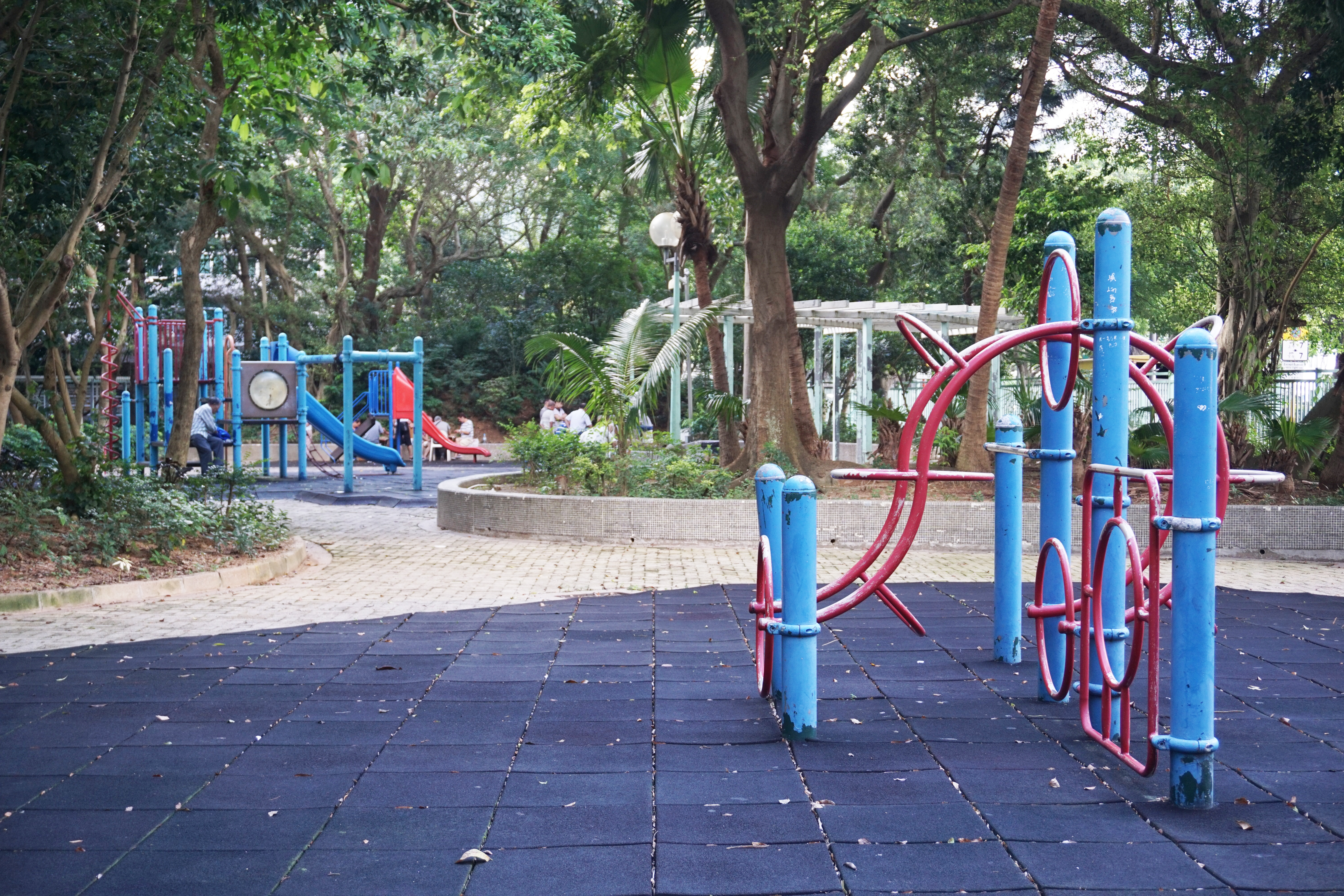 Tsui Wan Estate in Chai Wan, Hong Kong.